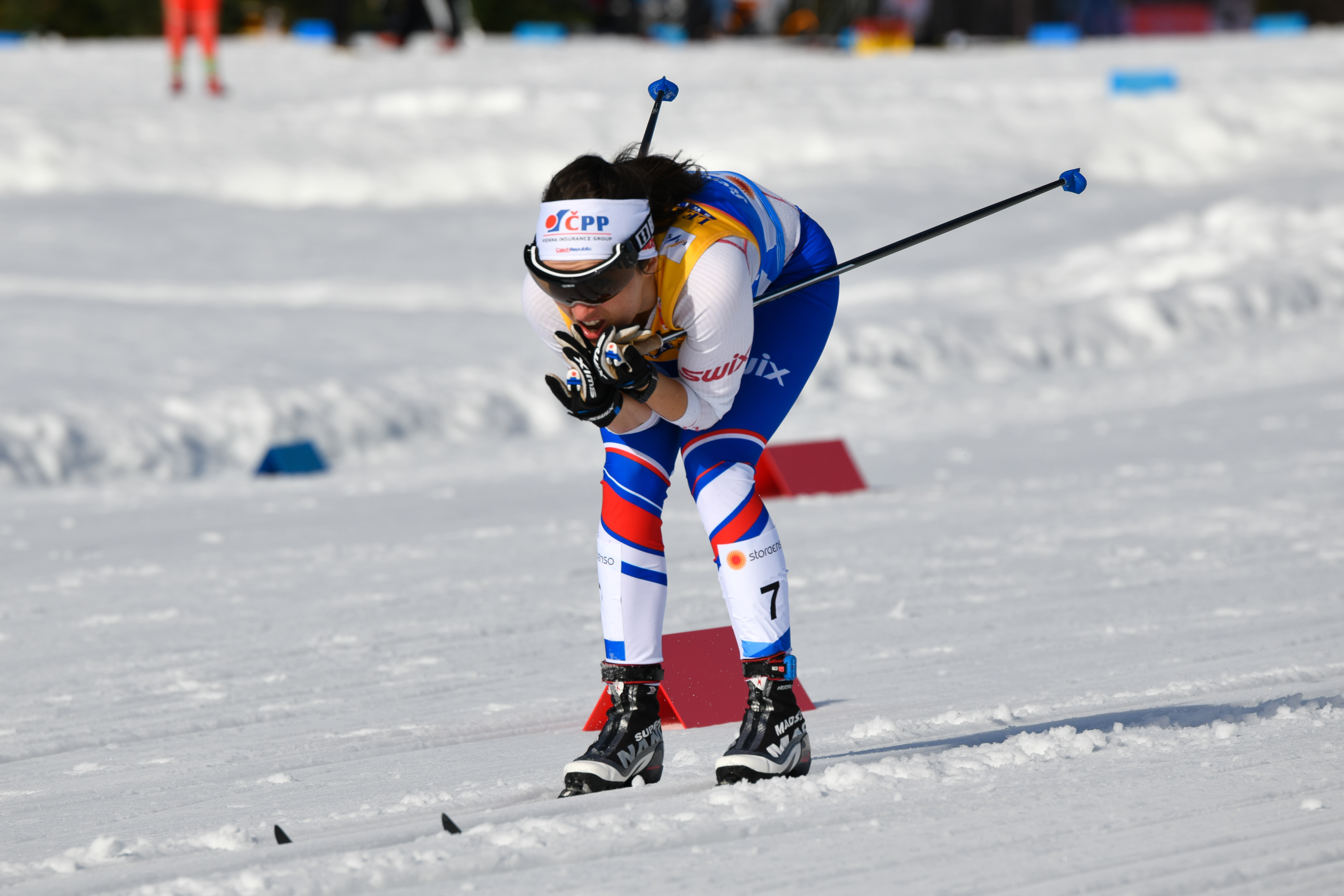 FIS Nordic Wolrd Ski Championships Seefeld 2019 - Ladies Cross Country 10km. Picture shows Katerina Razymova (CZE).